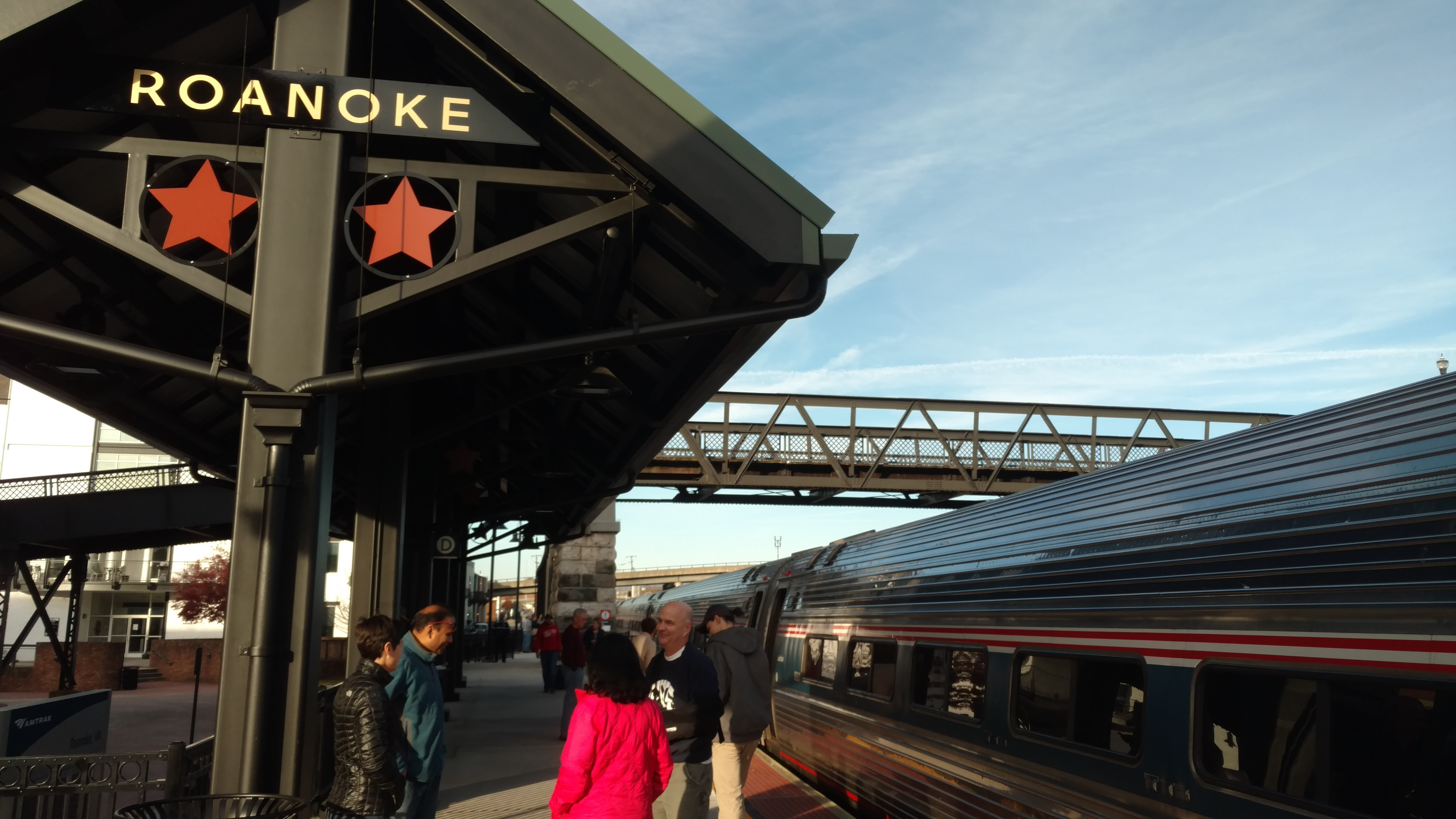 an Amtrak Northeast Regional train at Roanoke, Virginia Station, Nov 26 2017